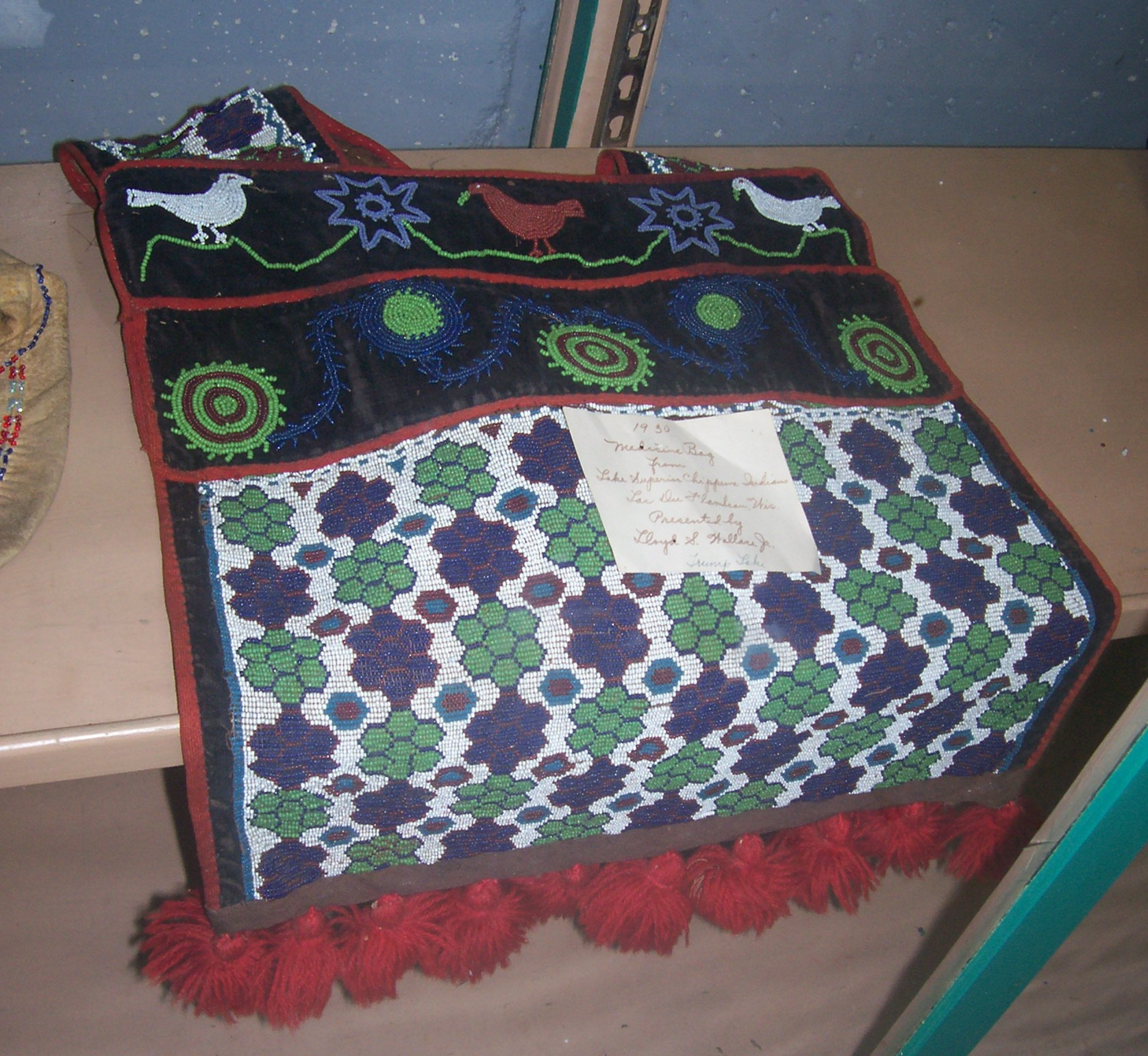 A bandolier bag on display at the Wabeno Logging Museum in Wabeno, Wisconsin, U.S. Note on the bag says: "1930 Medicine Bag from Lake Superior Chippewa Indians, Lac Du Flambeau, Wis. Presented by Lloyd W. Williams, Jr."